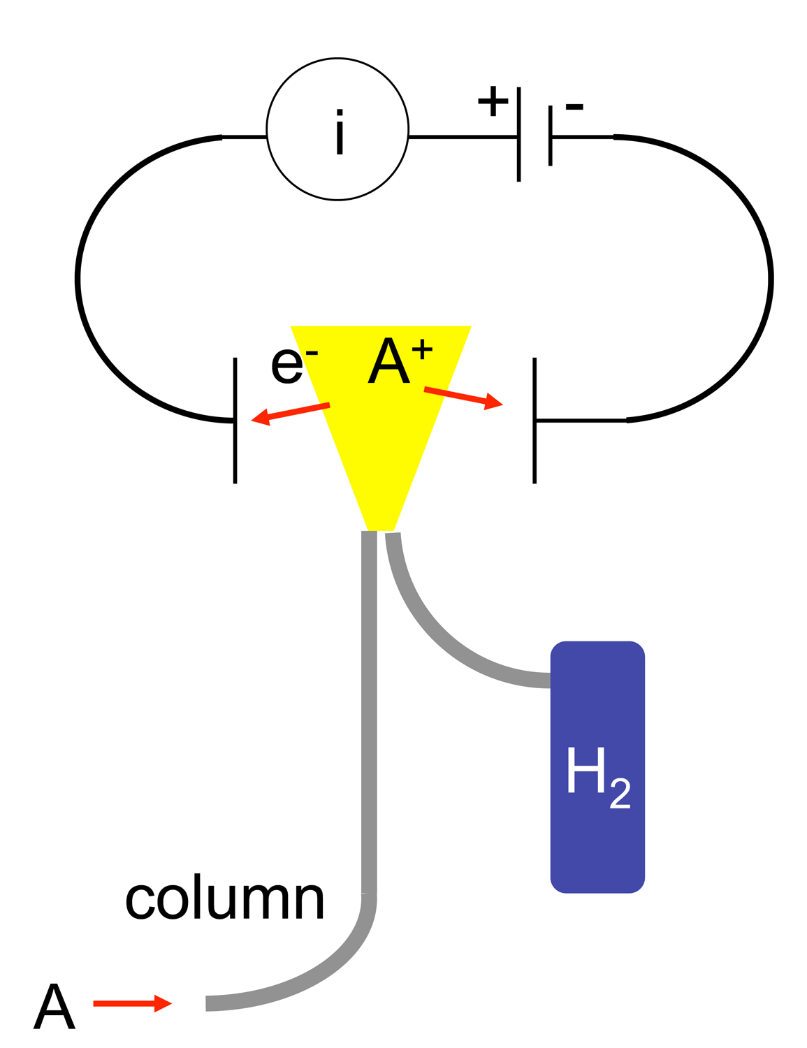 Schematic of a flame ionization detector for gas chromatography.